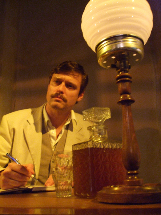 Stephen Billington as Trigorin in the London première of Tennessee Williams' The Notebook of Trigorin, directed by Phil Willmott, at the Finborough Theatre, April 2010.